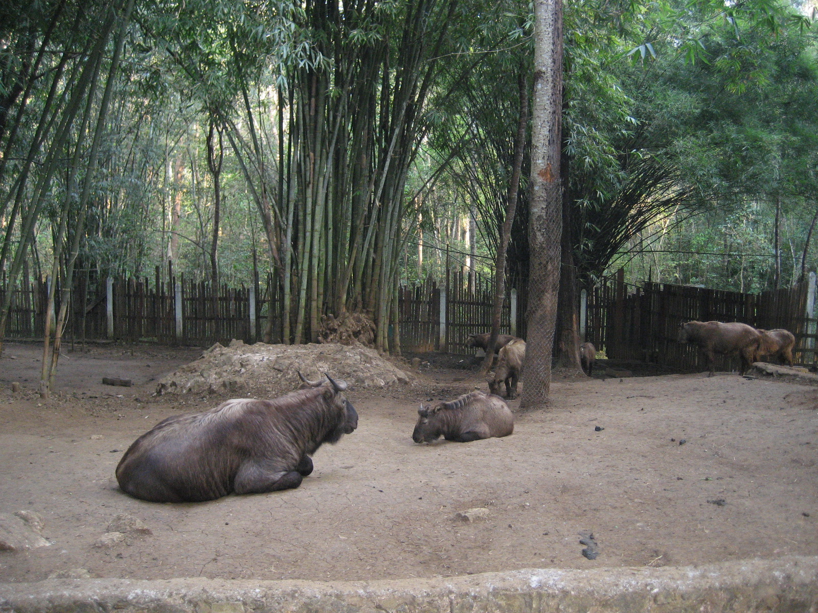 Takin at Kandawgyi National Botanical Gardens, Pyin U Lwin, Myanmar